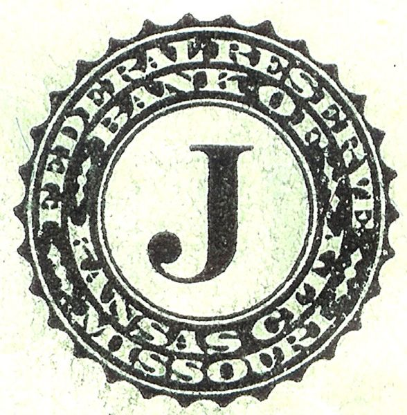 Federal Reserve Bank of Kansas City "J" insignia on dollar bill.